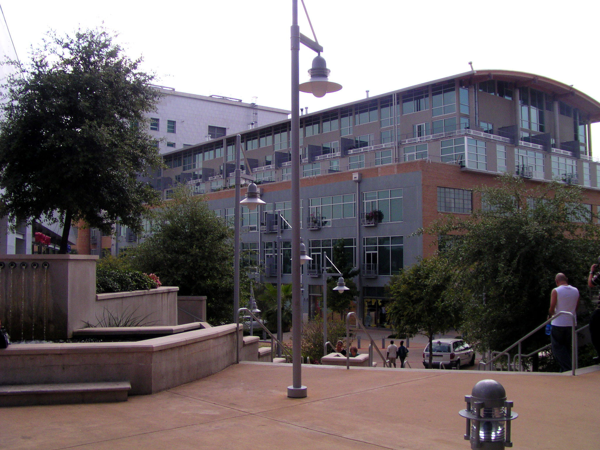 Development adjacent to (and eponymous with) Mockingbird Station, a station on the Dallas Area Rapid Transit's Blue and Red Lines in north Dallas, Texas (USA).